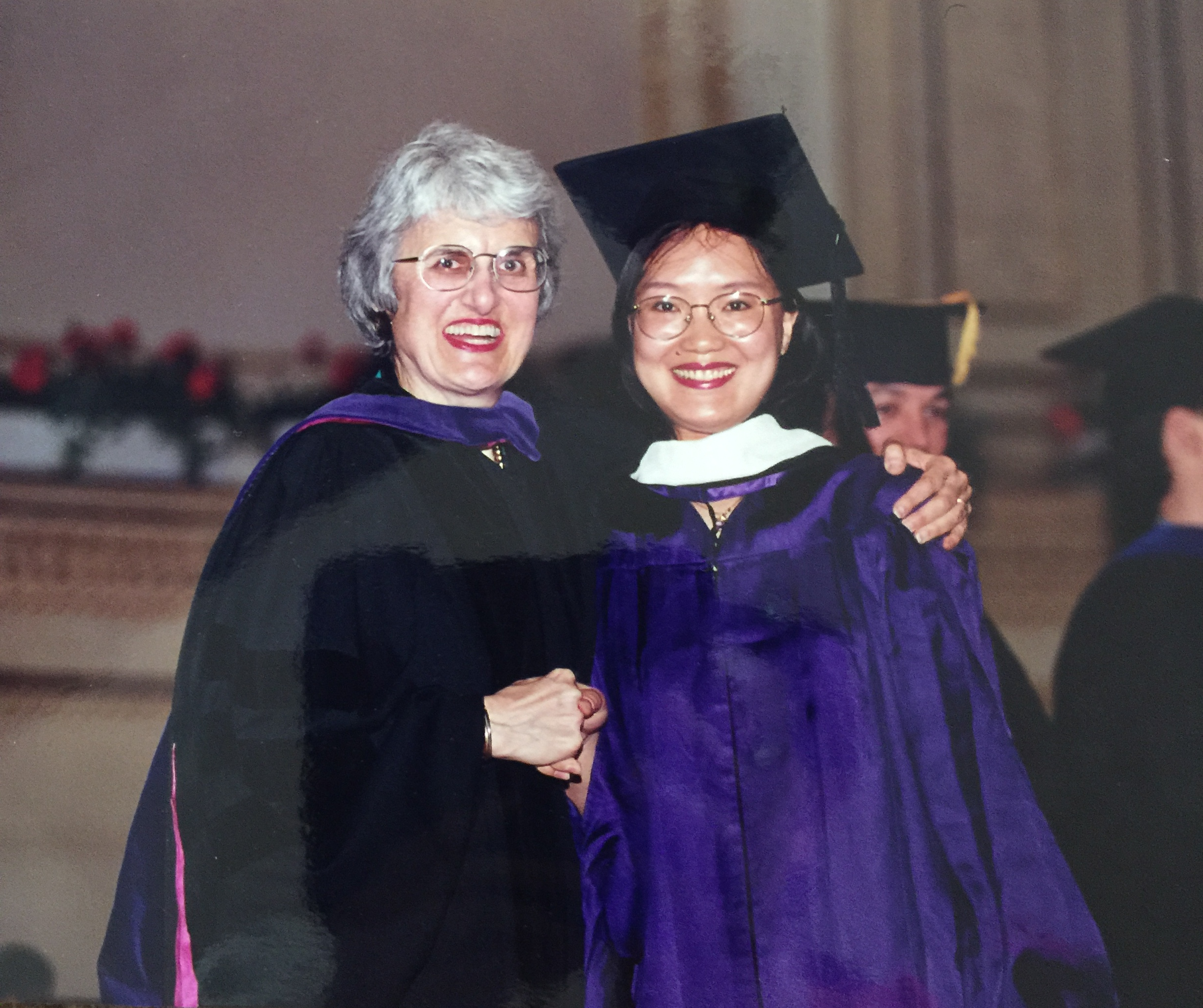 Shao, Wei, class representative, with the dean on graduation day in 1998.